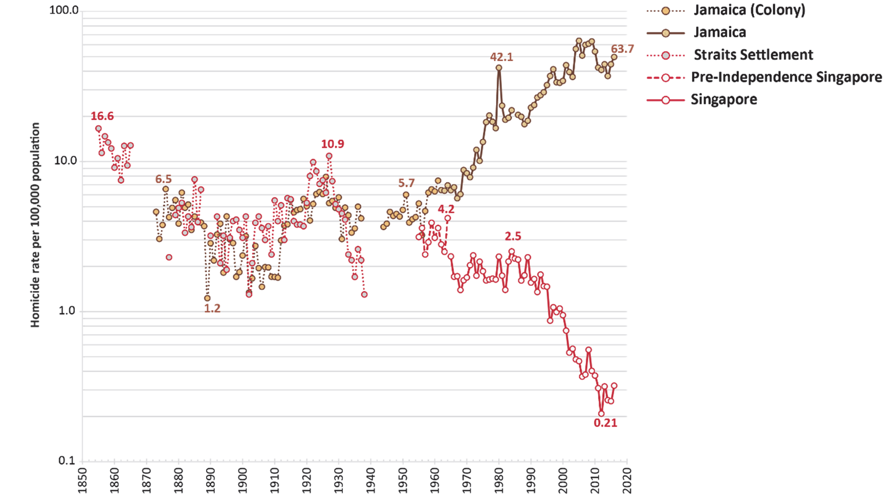 Long-term trend in homicide rates in Jamaica and Singapore, 19th century until today. (The Straits Settlements have been a colony including Singapore.)